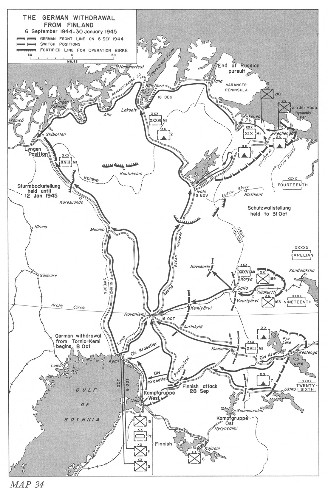 US Army study map showcasing the German withdrawal from Finland from 6 September 1944 to 30 January 1945